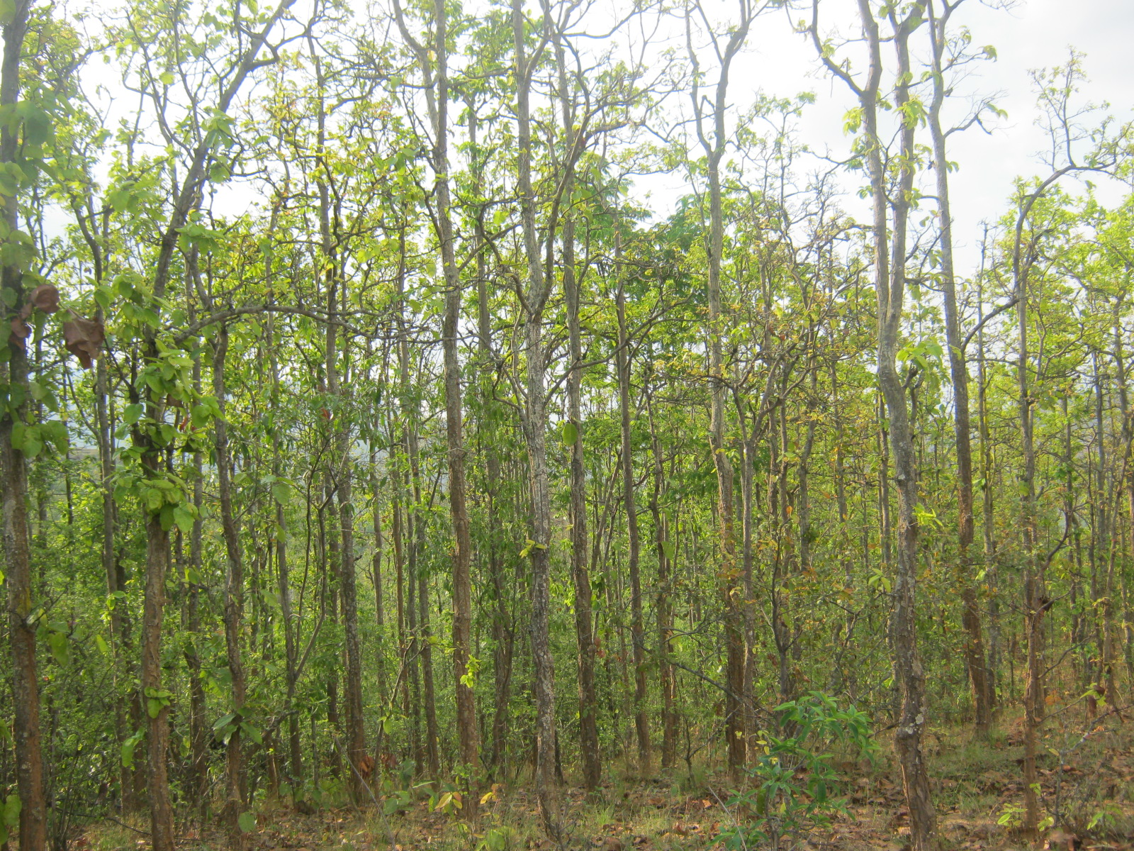 Sal tree in a forest in Nepal.